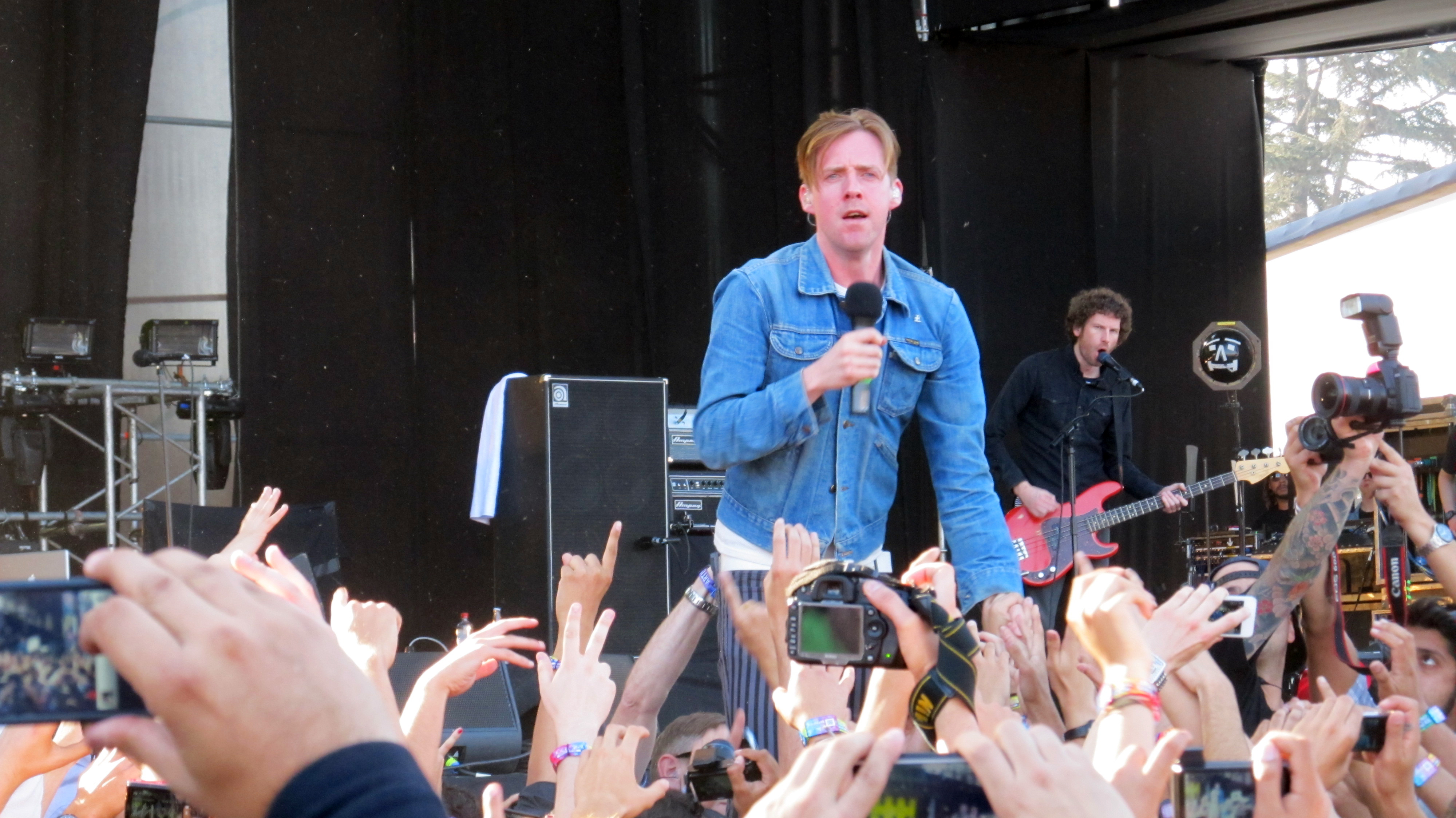 Ricky Wilson with Kaiser Chiefs playing at Lollapalooza Chile 2013.